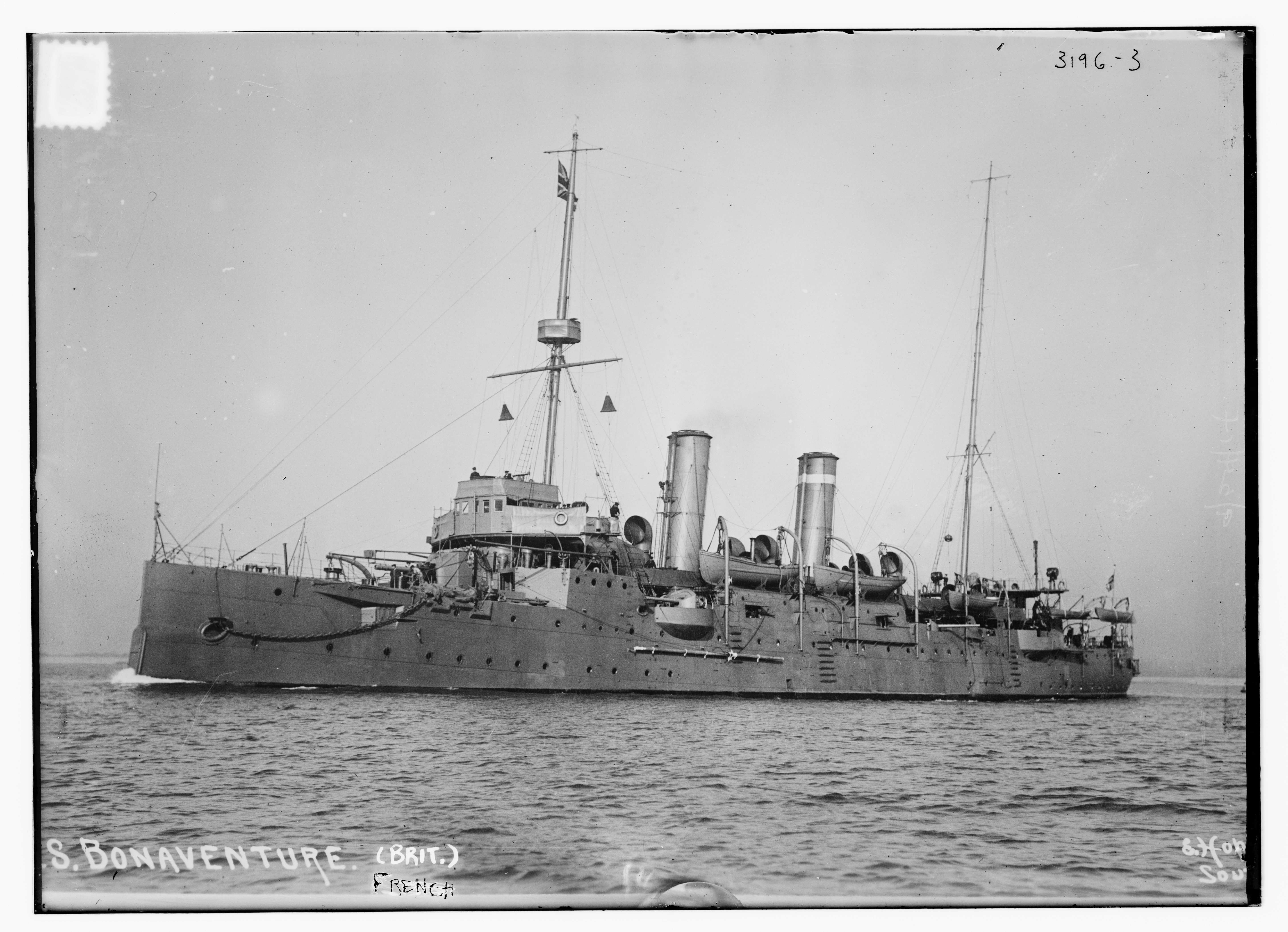 Title: H.M.] S. Bonaventure (Brit. Abstract/medium: 1 negative : glass ; 5 x 7 in. or smaller.